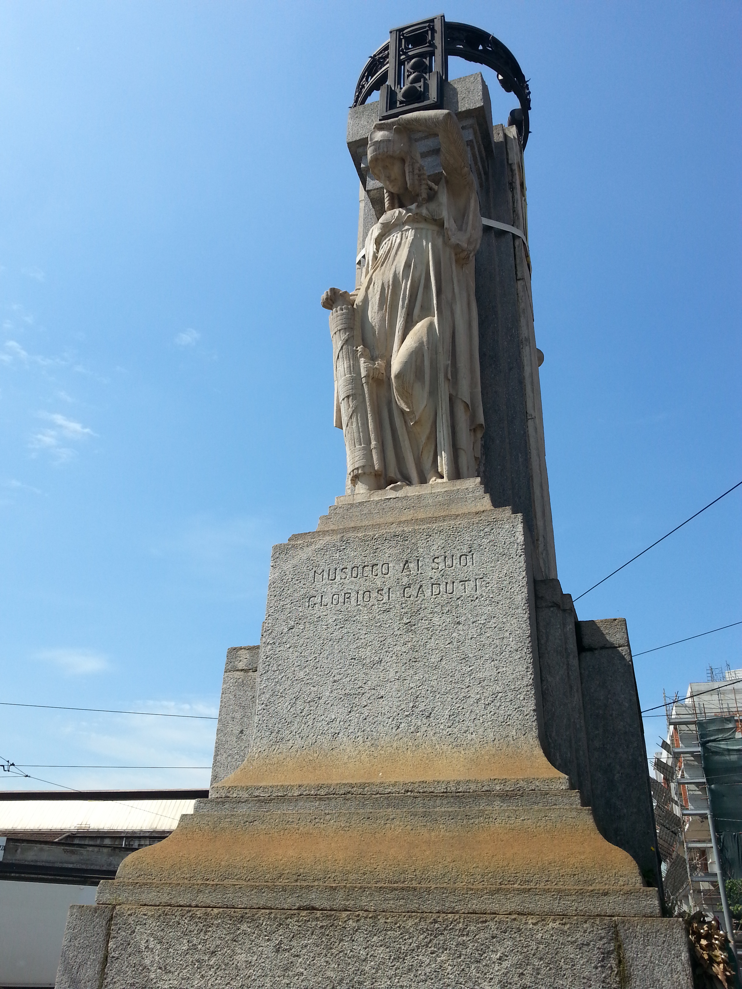 Italy statue with the written 'Musocco ai suoi gloriosi caduti' on the marble